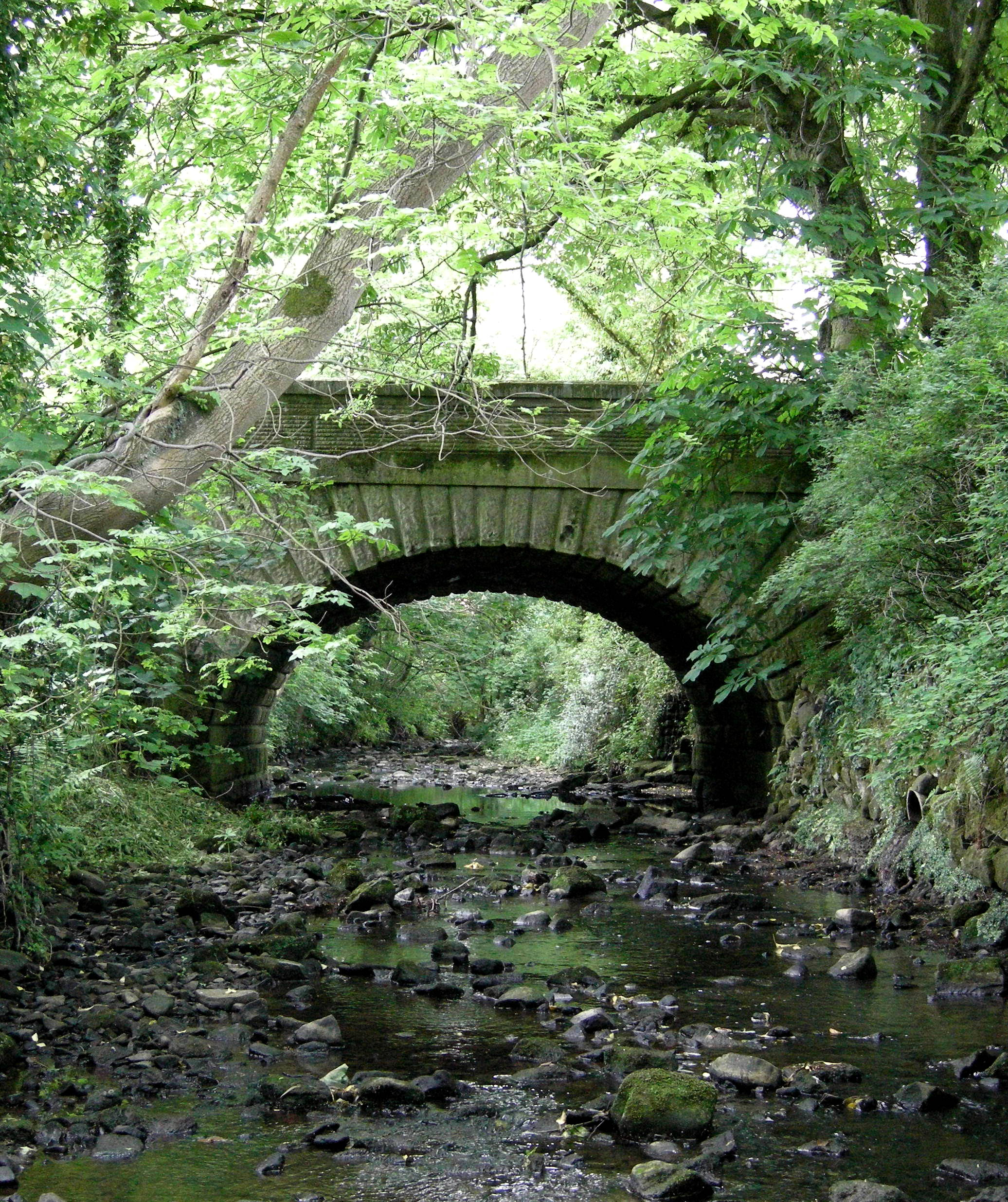 View, looking west from Crimple Beck, of the bridge at Burn Bridge, Harrogate, North Yorkshire, England.